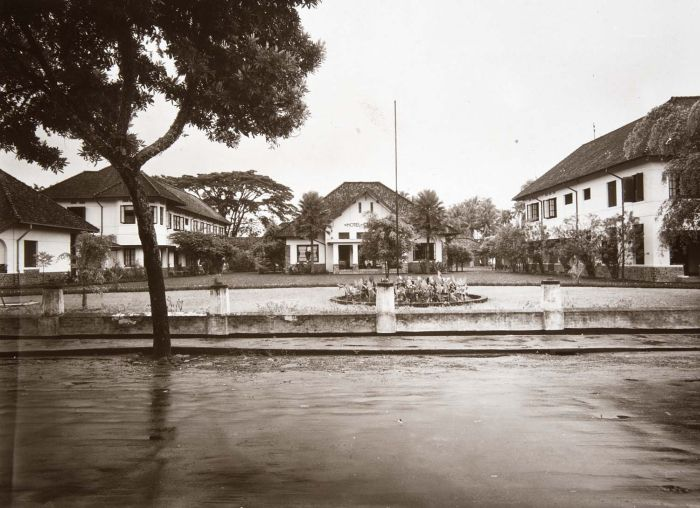 'Hotel Centraal'